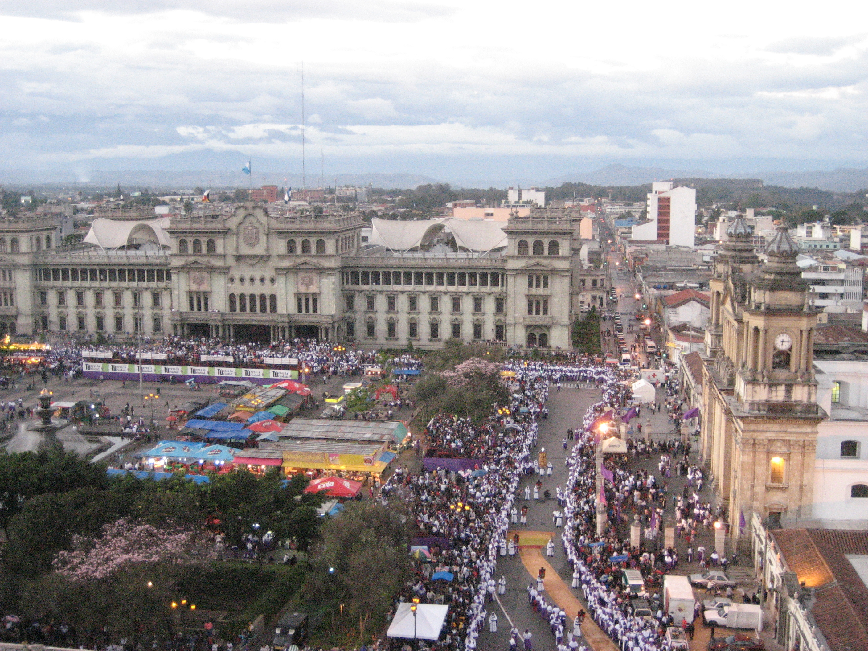 Main Plaza, Guatemala City, with procession